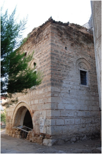 Medrese Giannitsa